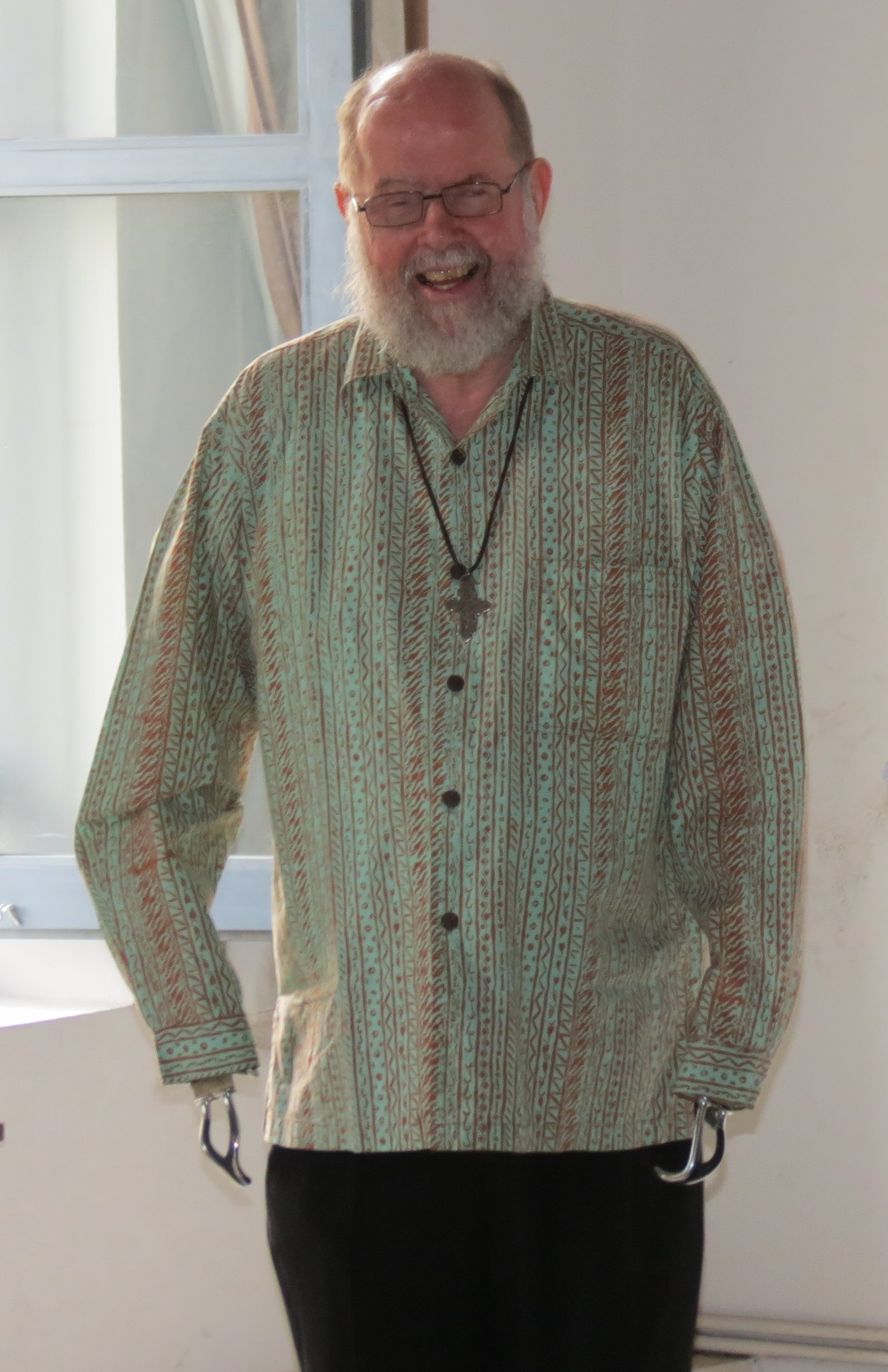 Father Michael Lapsley in Beirut in March 2017.